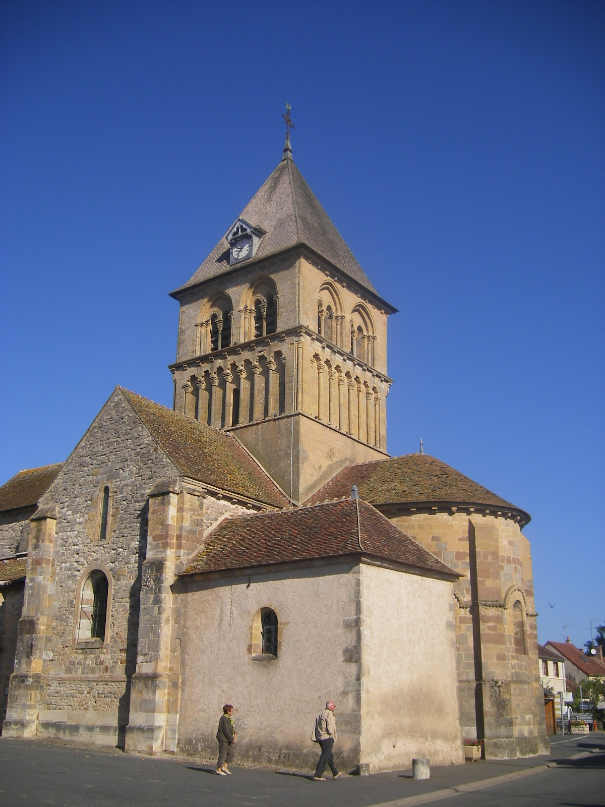 Rouy